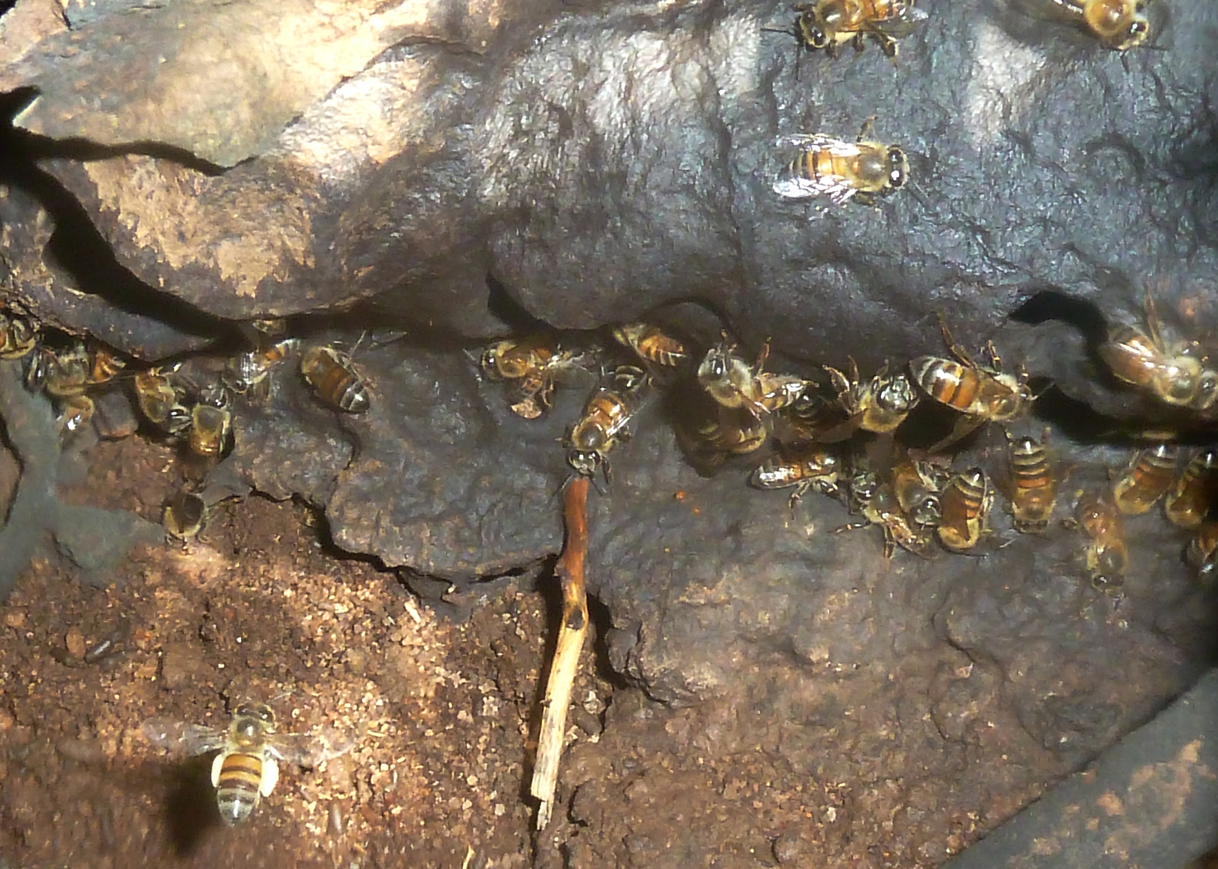 African honey bees entering and exiting their nest, apparently inside a log, in the Moreleta Kloof Nature Reserve. Some arrive with pollen.